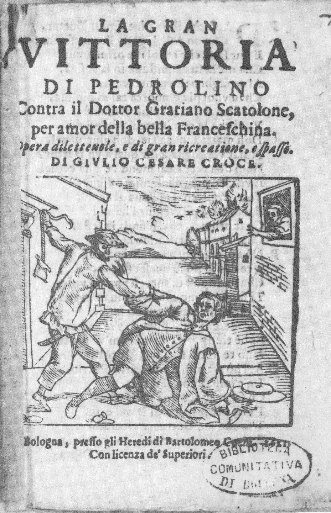 Pedrolino and the Doctor in anonymous woodcut on title-page of Giulio Cesare Croce's La Gran Vittoria di Pedrolino (Bologna, 1621)